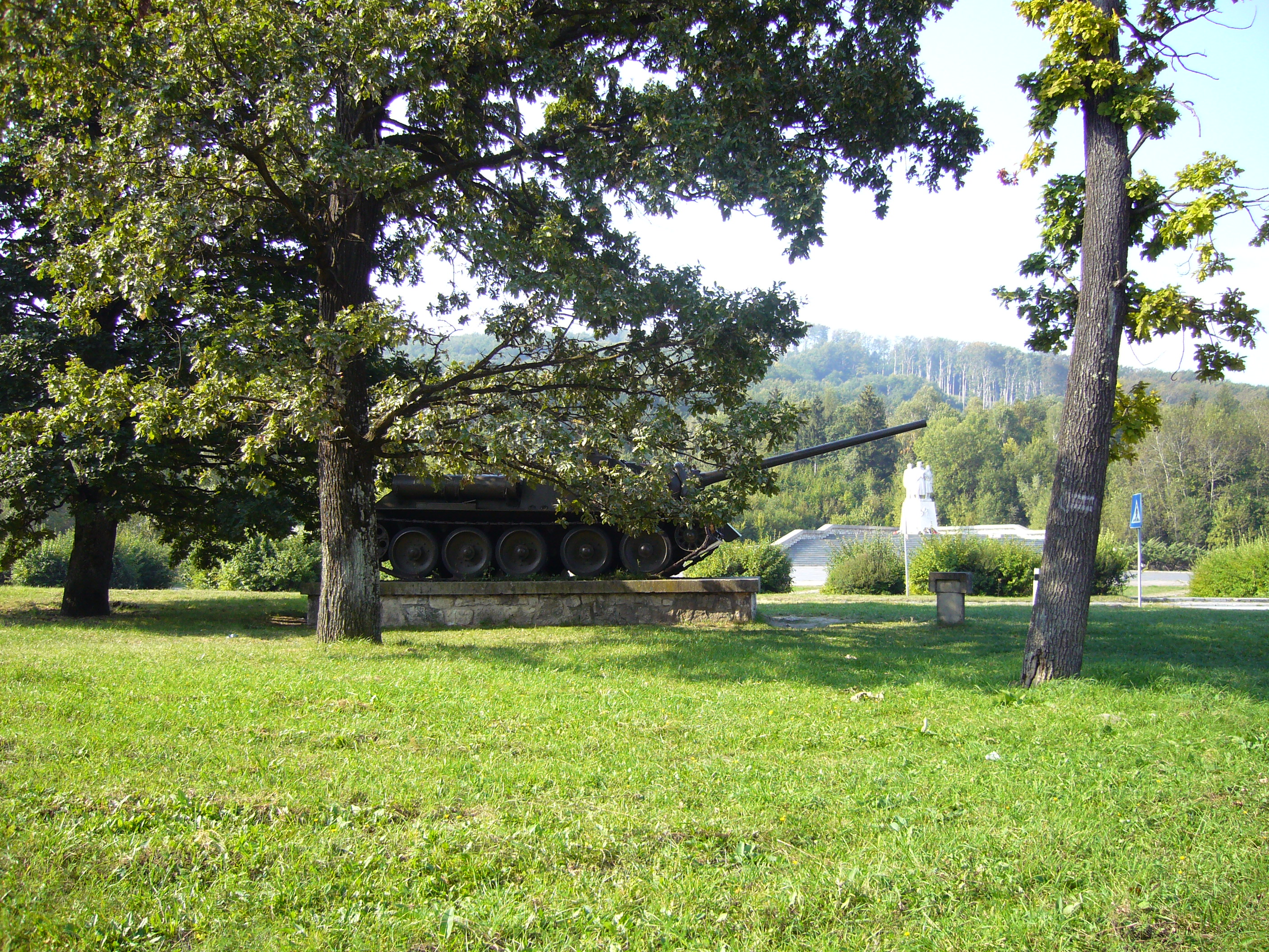 2nd WW monument at Dargov pass (East Slovakia)